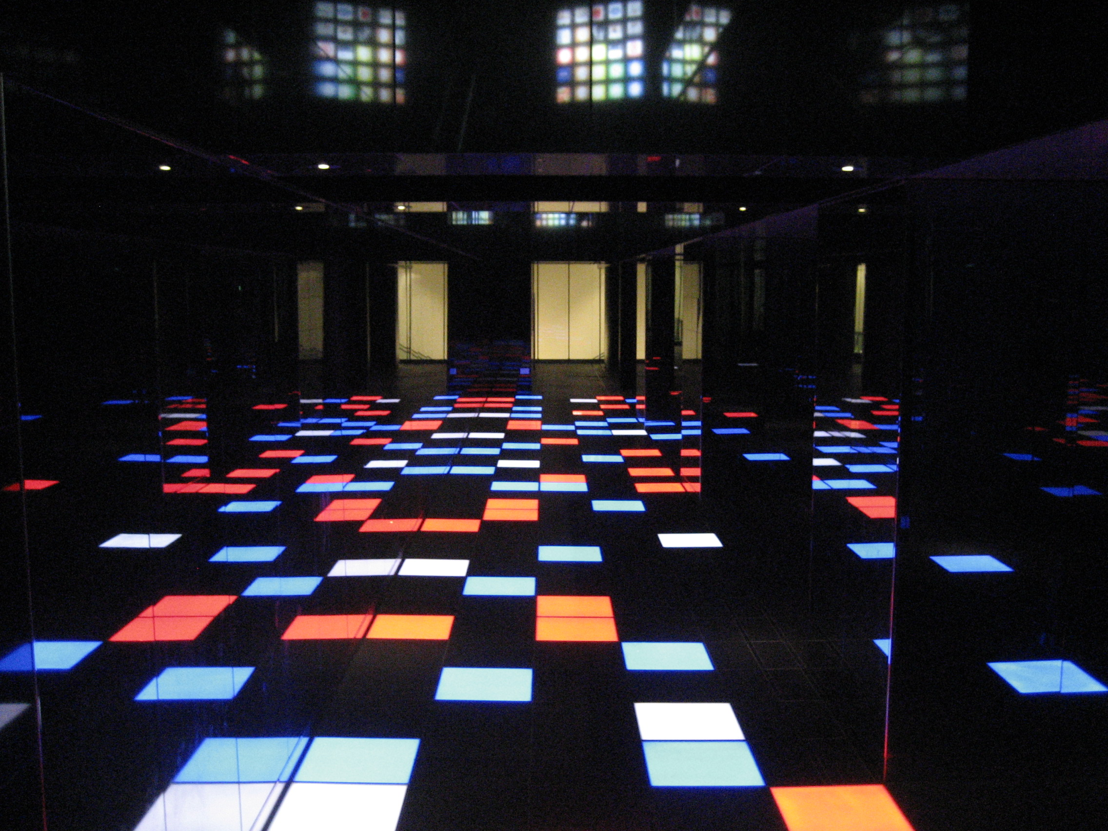 Lucent Tower B1